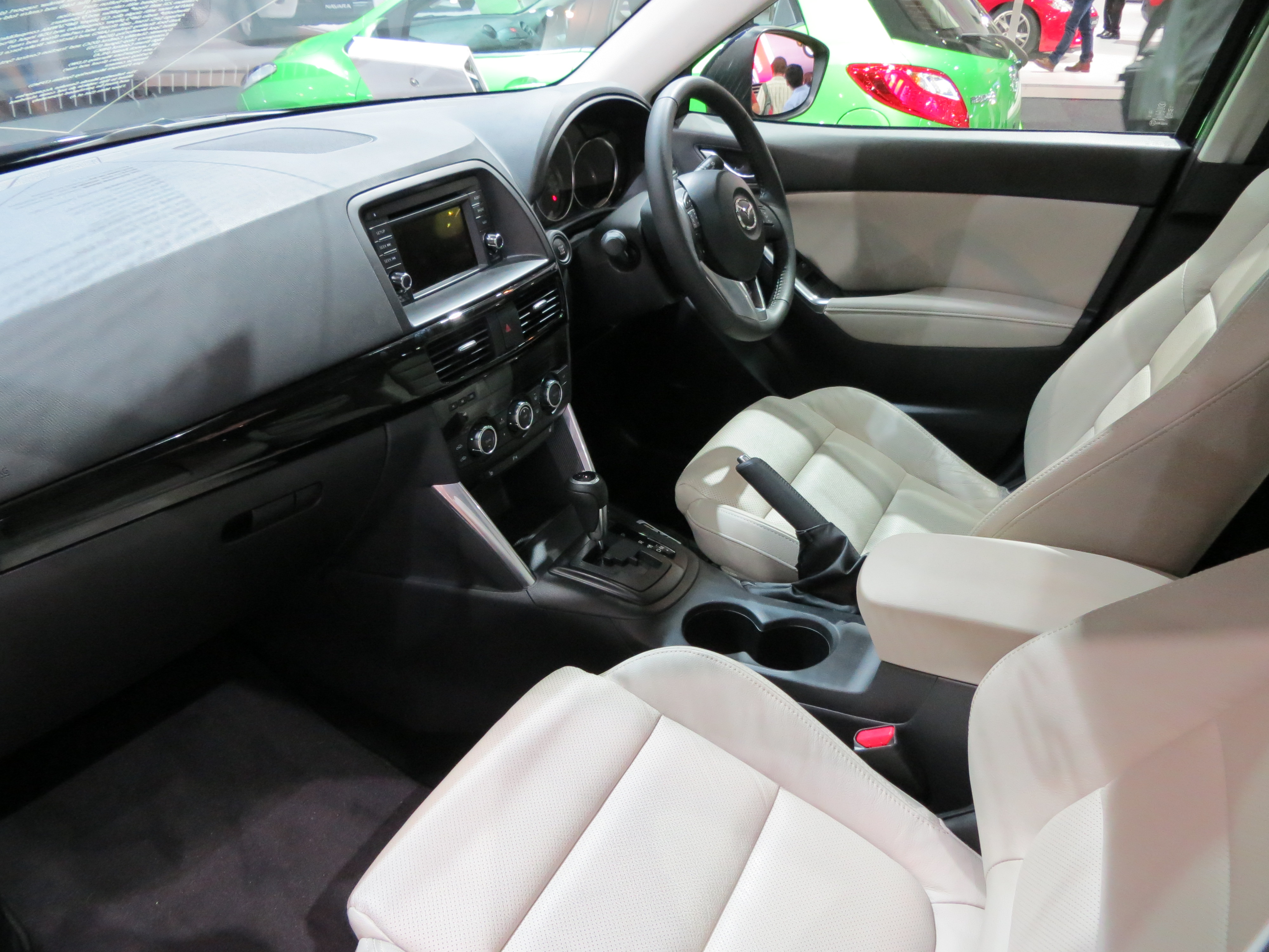 2012 Mazda CX-5 (KE) Grand Touring wagon. Photographed at the 2012 Australian International Motor Show, Sydney, New South Wales, Australia.